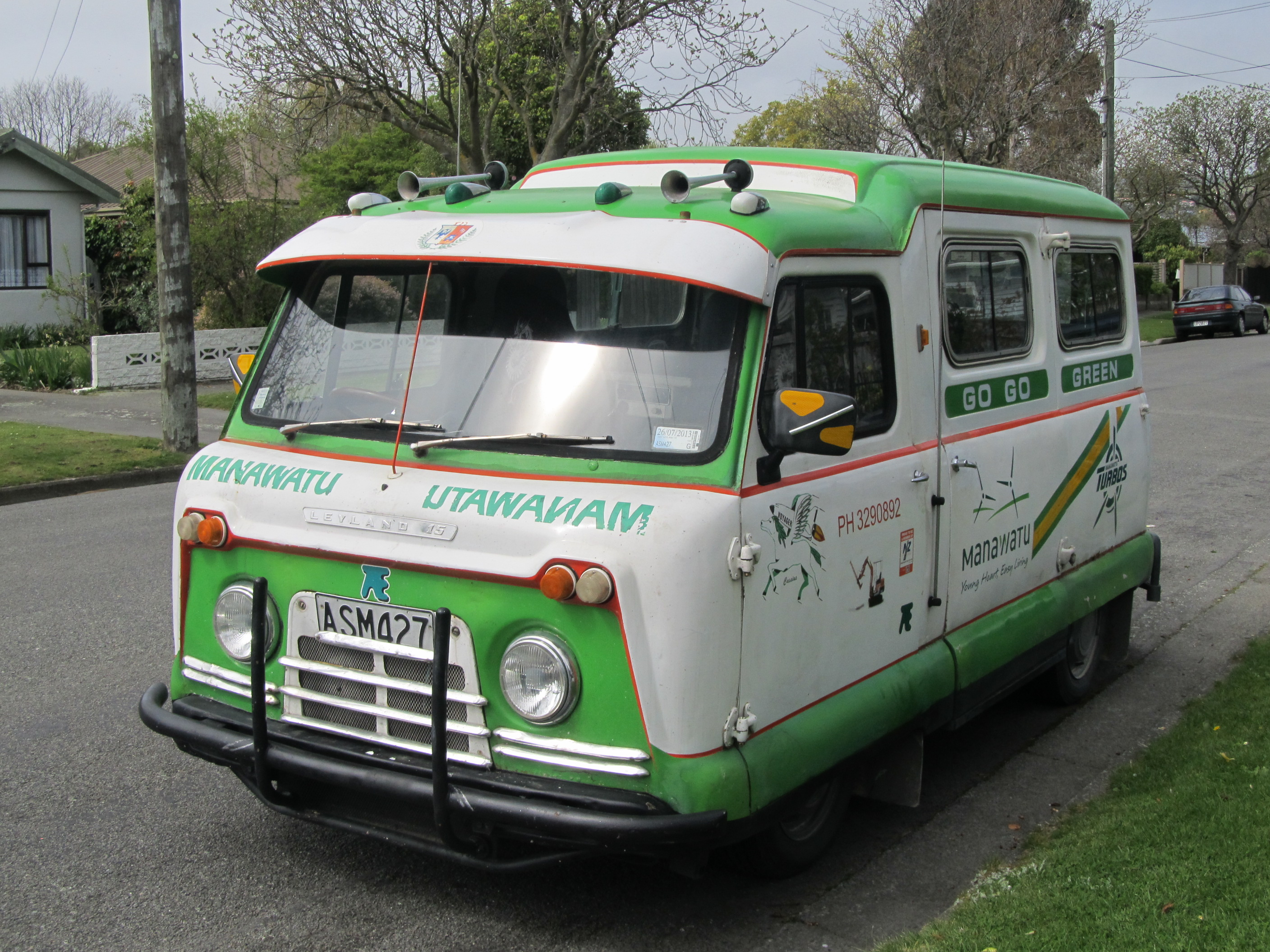 ASM427 A photo of this 'contraption' has already been posted by Stephen Trinder, but I thought I'd post my photos of it anyway! I did find it first though... LOL. Anyway, this thing was utterly incredible! This is only the second Leyland 15 I have ever seen - they are that rare...